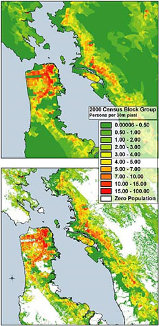 Comparison of a choropleth map (top) and a dasymetric map (bottom) of the population of the San Francisco Bay Area in 2000.[1]